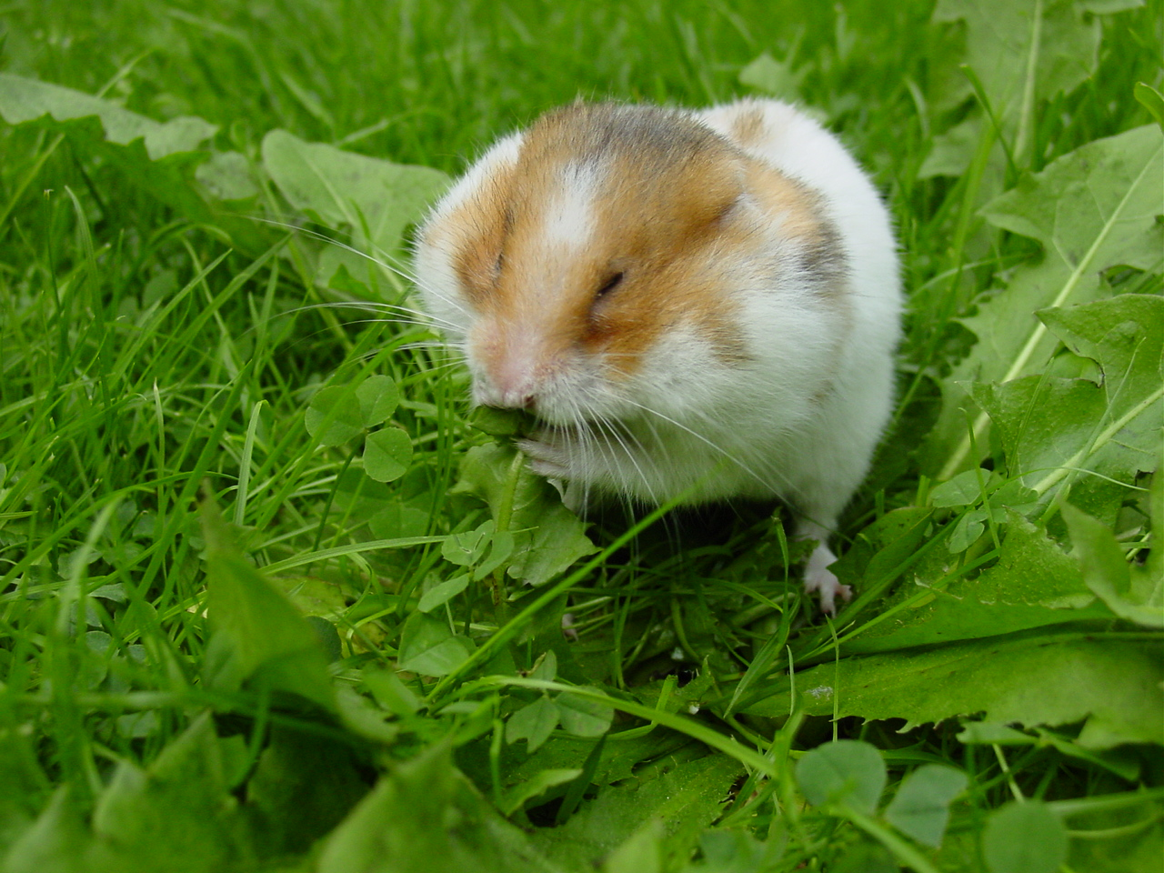 A Syrian hamster filling his cheek pouches with Dandelion leaves.